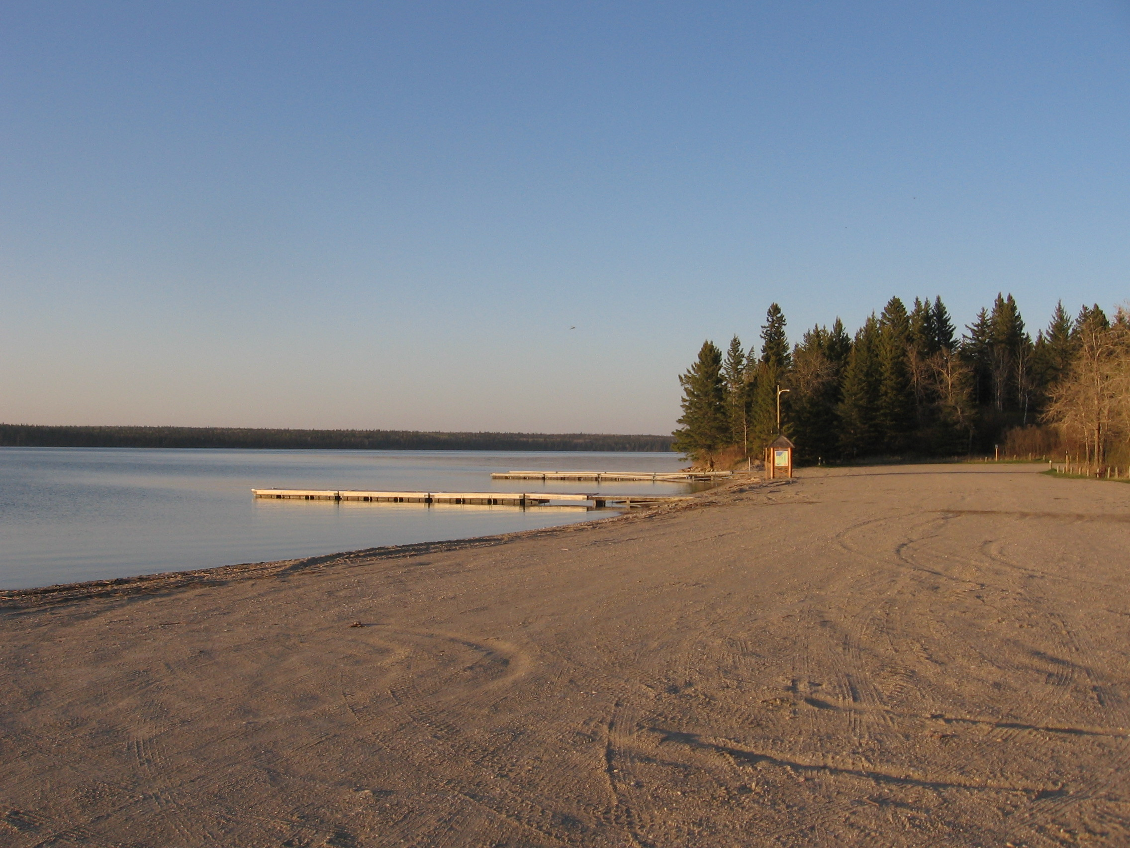 The boat launch area on Clear Lake in Riding Mountain National Park